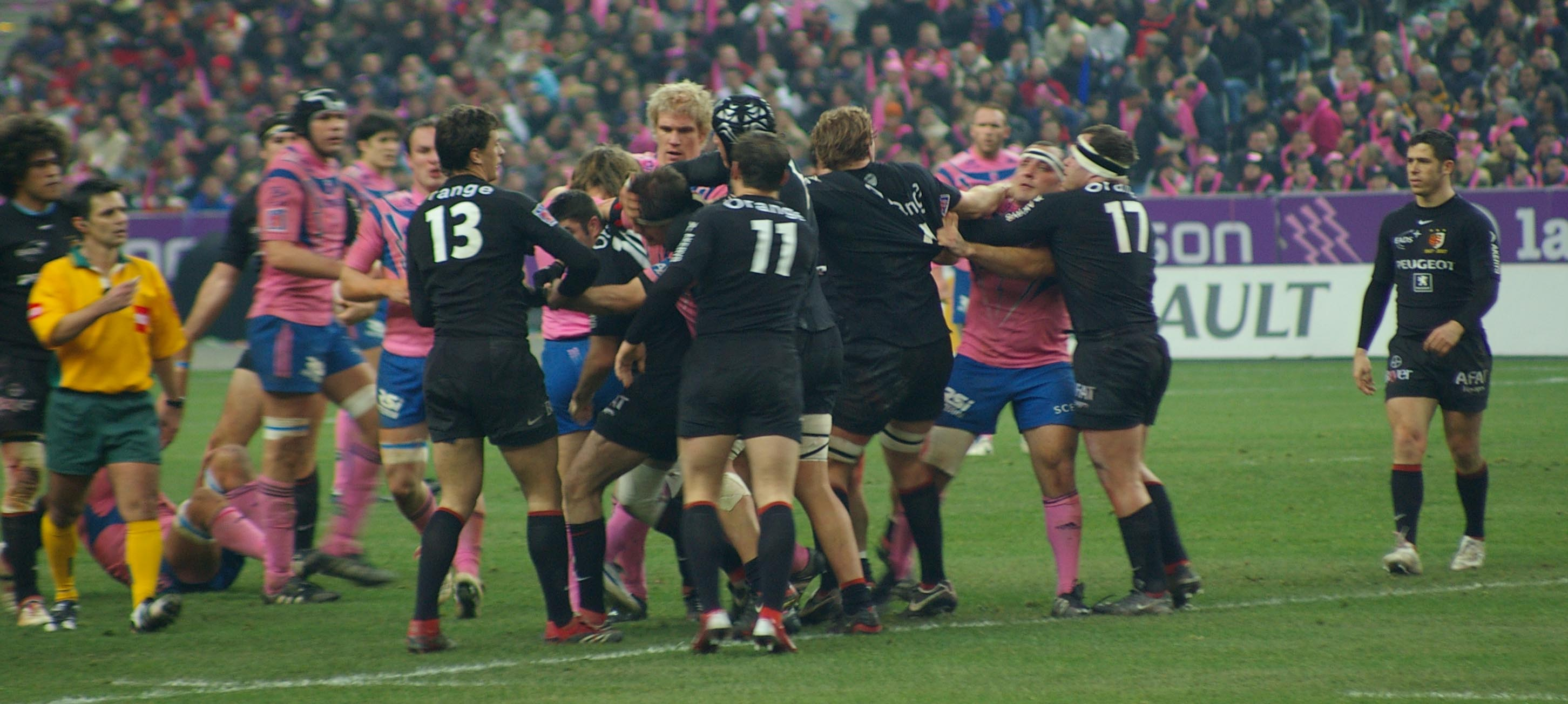 Pictures from the rugby game Stade Français vs Stade toulousain which took place in Stade de France, Paris, 27/01/2007. the two teams involved in a fight